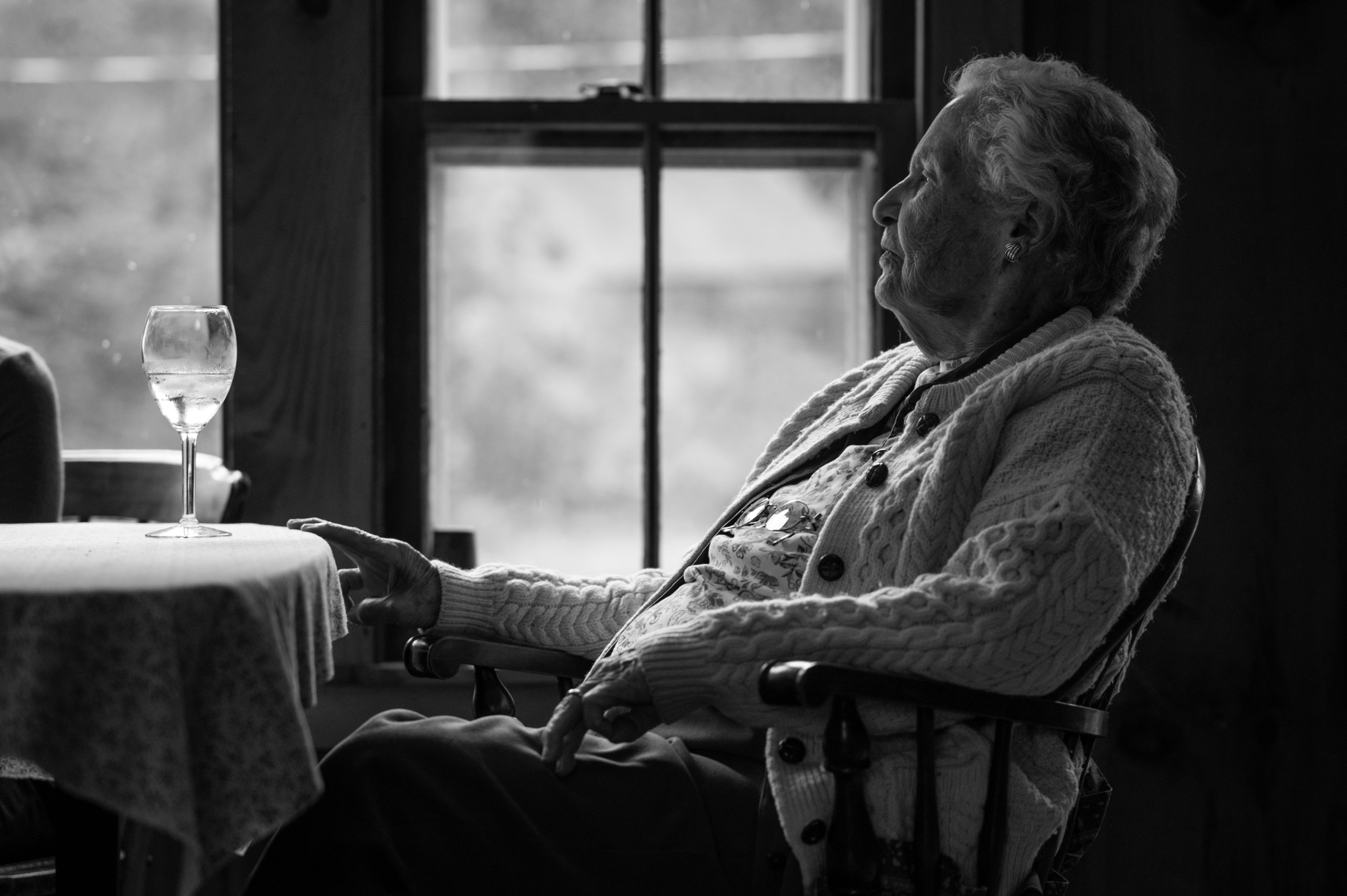 This is a candid portrait of Alice Parker taken by Eduardo Montes-Bradley during a visit to her birthplace home in Hawley, Massachusetts.